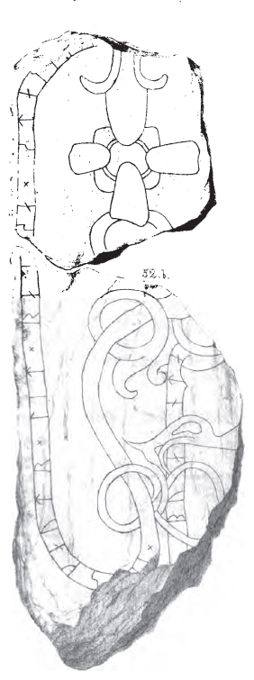 The runestone U 84. The inscription reads × -(s)kautr × lit × rai[sa × stai- -]... buenta -... In English "Ásgautr had the stone raised ... husbandman ..."